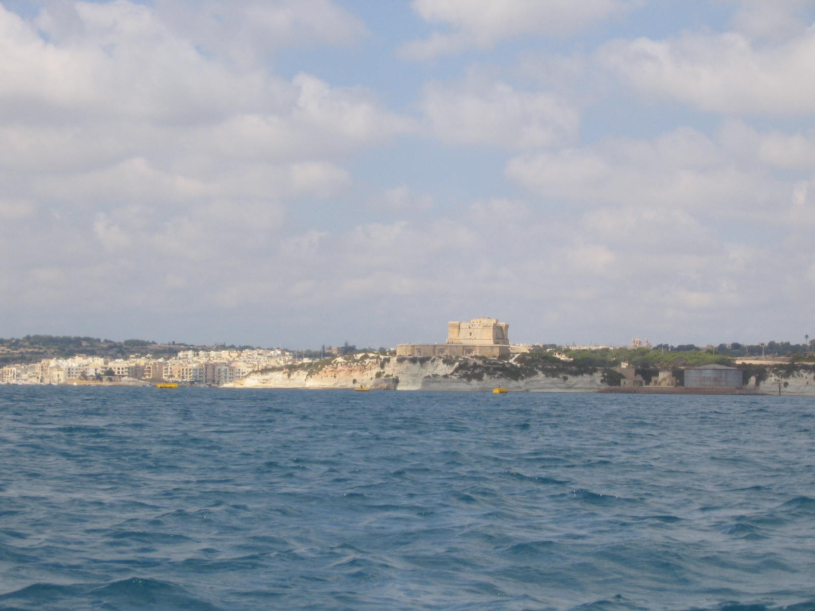 St Lucian's Tower, Marsaxlokk, Malta. View From Seaward Copyright H.J.Moyes Sept 2005.